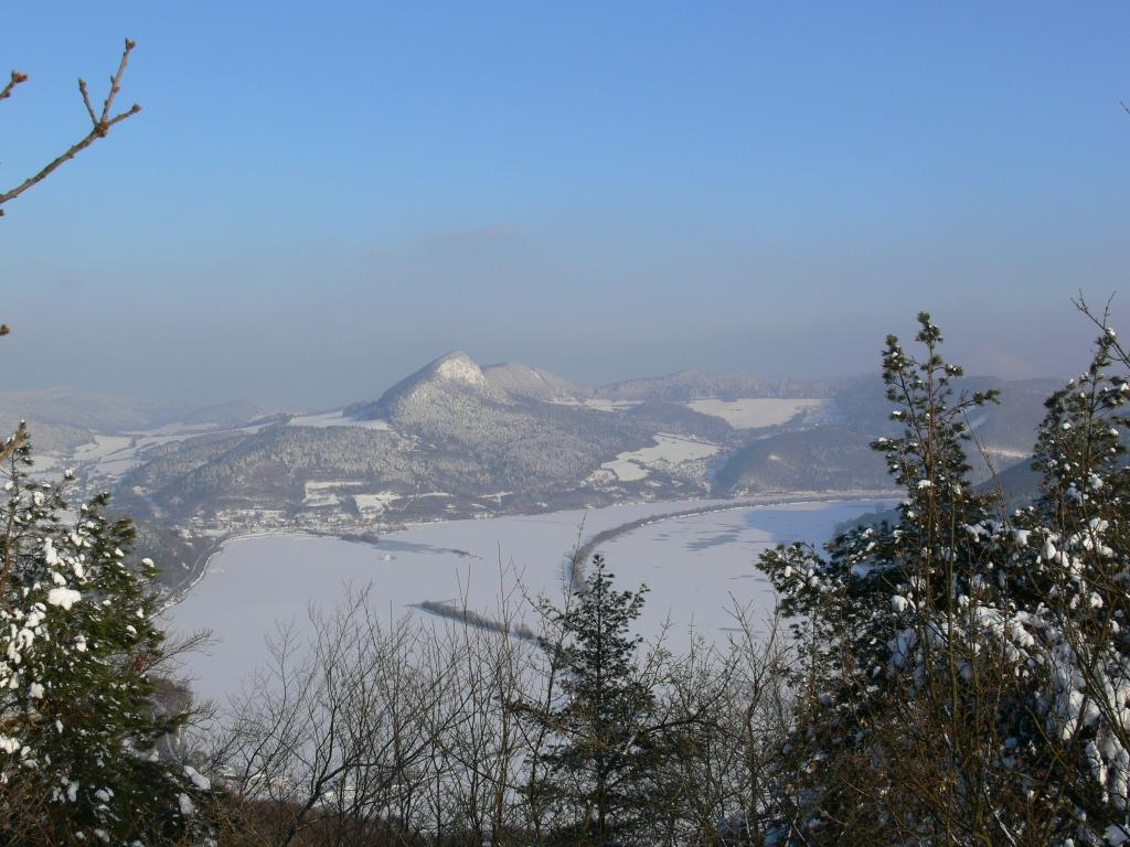 Bay of slovak village Udica in winter